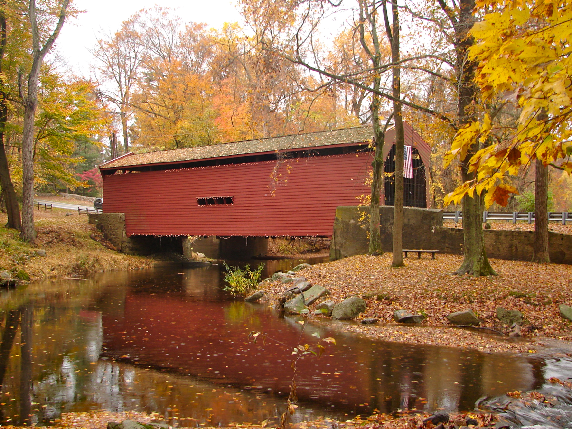 Bartram's Covered Bridge on the NRHP since December 10, 1980, West of Newtown on Legislative Route 15098 (Goshen Road, near intersection with Boot Road) in Newtown Township, Delaware County, Pennsylvania. Extends over Crum Creek into Willistown Township in Chester County.